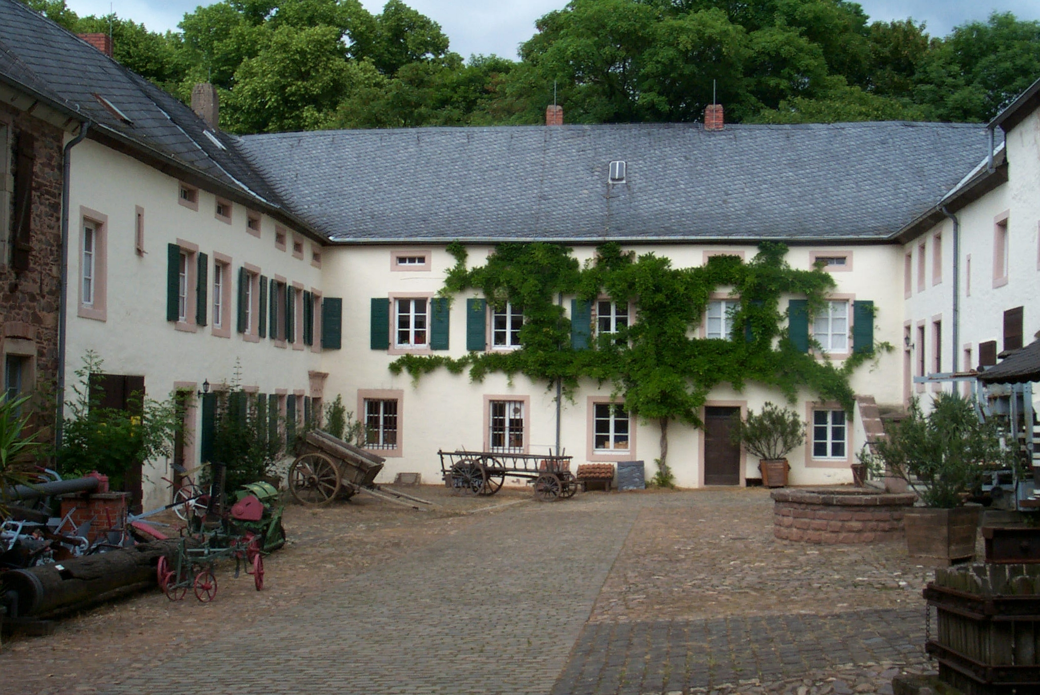 Open air museum Roscheider Hof, Germany, inner yard - main building